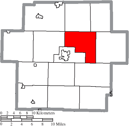 Map of the municipal and township boundaries of Carroll County, Ohio, United States, as of the 2000 census, with the location of Washington Township highlighted. Township borders are shown only in unincorporated areas in order to differentiate incorporated and unincorporated areas more clearly.